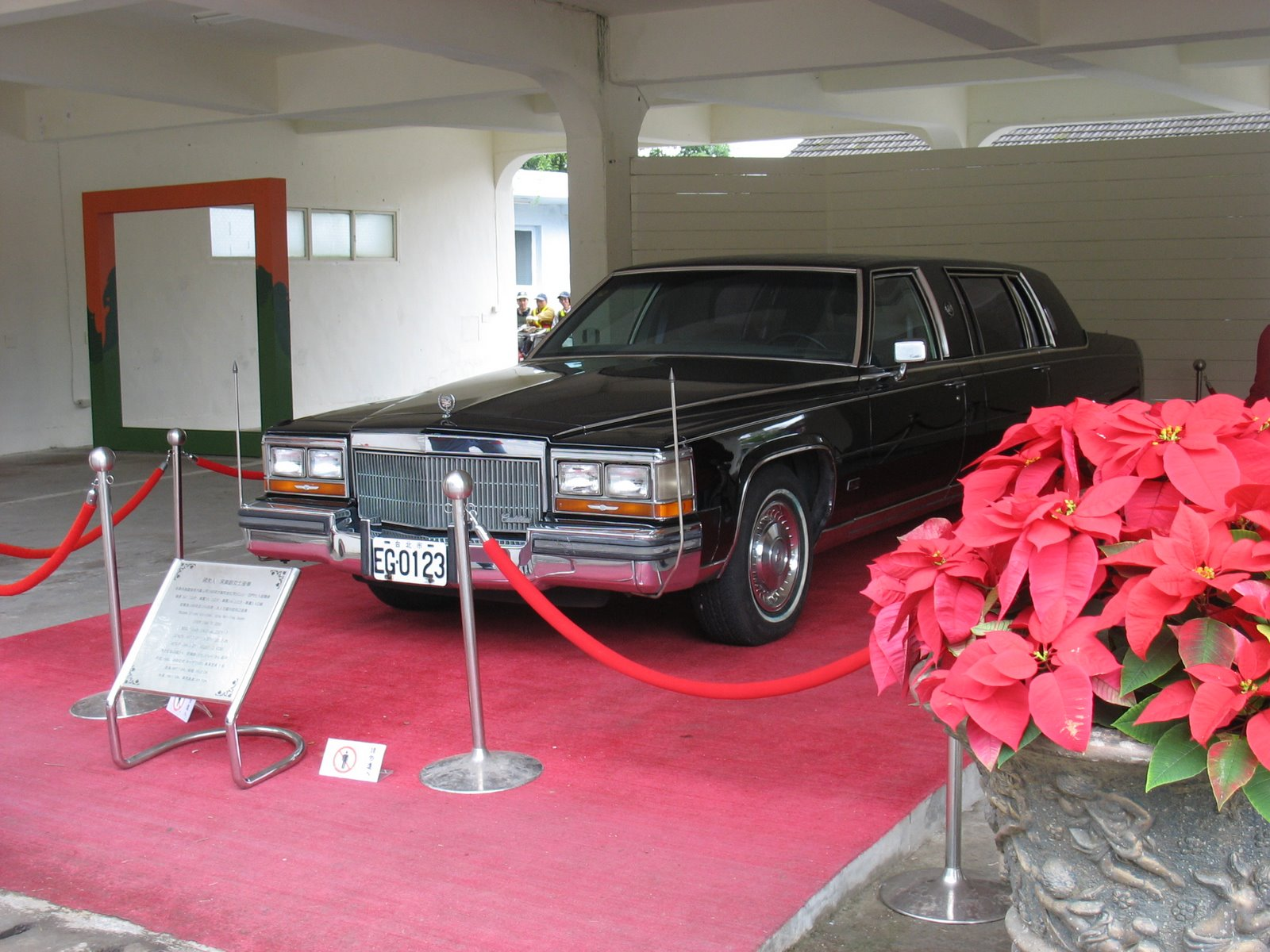 Cadillac of Soong Meiling at the Shilin Official Residence.